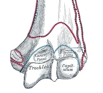 Detail of File:Gray207.png showing the trochlea and capitulum.